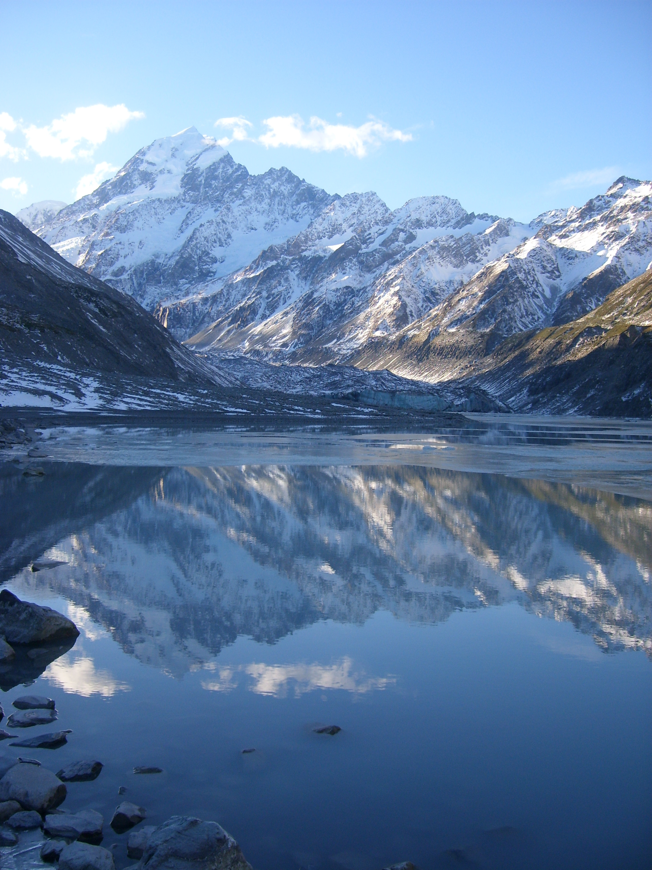 Mount Cook in Winter with the Hooker Glacier in the foreground.